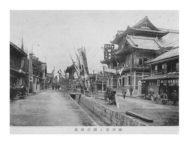 Okayama theater on Yanagawa street in Okayama city.